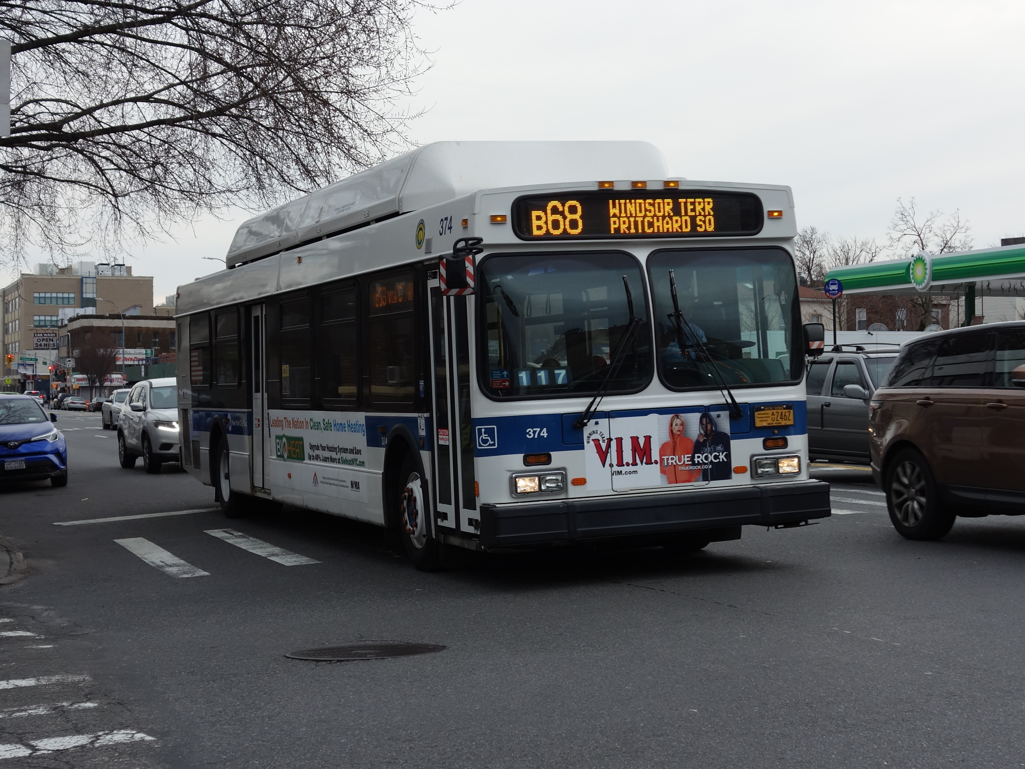 A Windsor Terrace–Bartel-Pritchard Square-bound B68 local bus traveling north up Coney Island Avenue at Caton Avenue at the confluence of Windsor Terrace, Kensington, and Prospect Park South (Flatbush), Brooklyn.